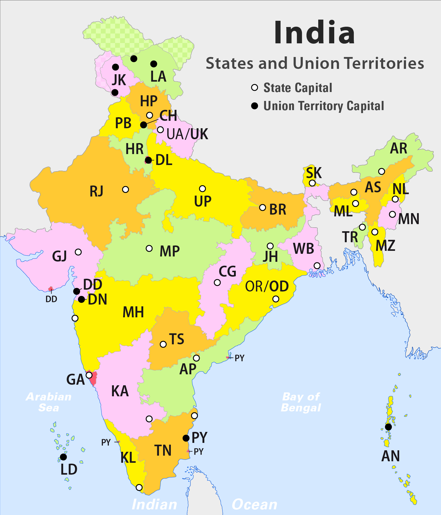 India with State Codes